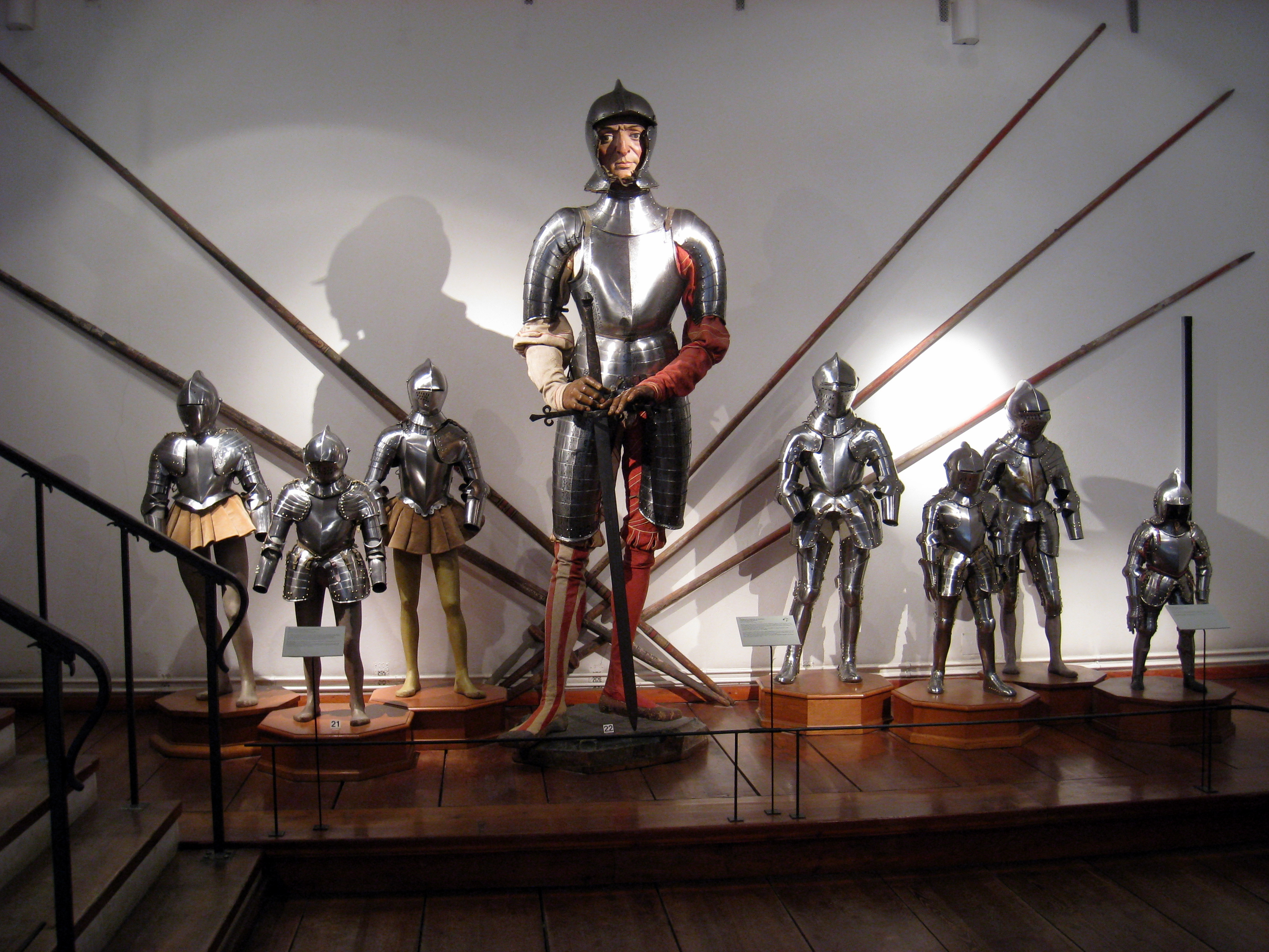 Schloss Ambras, Innsbruck, Austria. Armor collection.